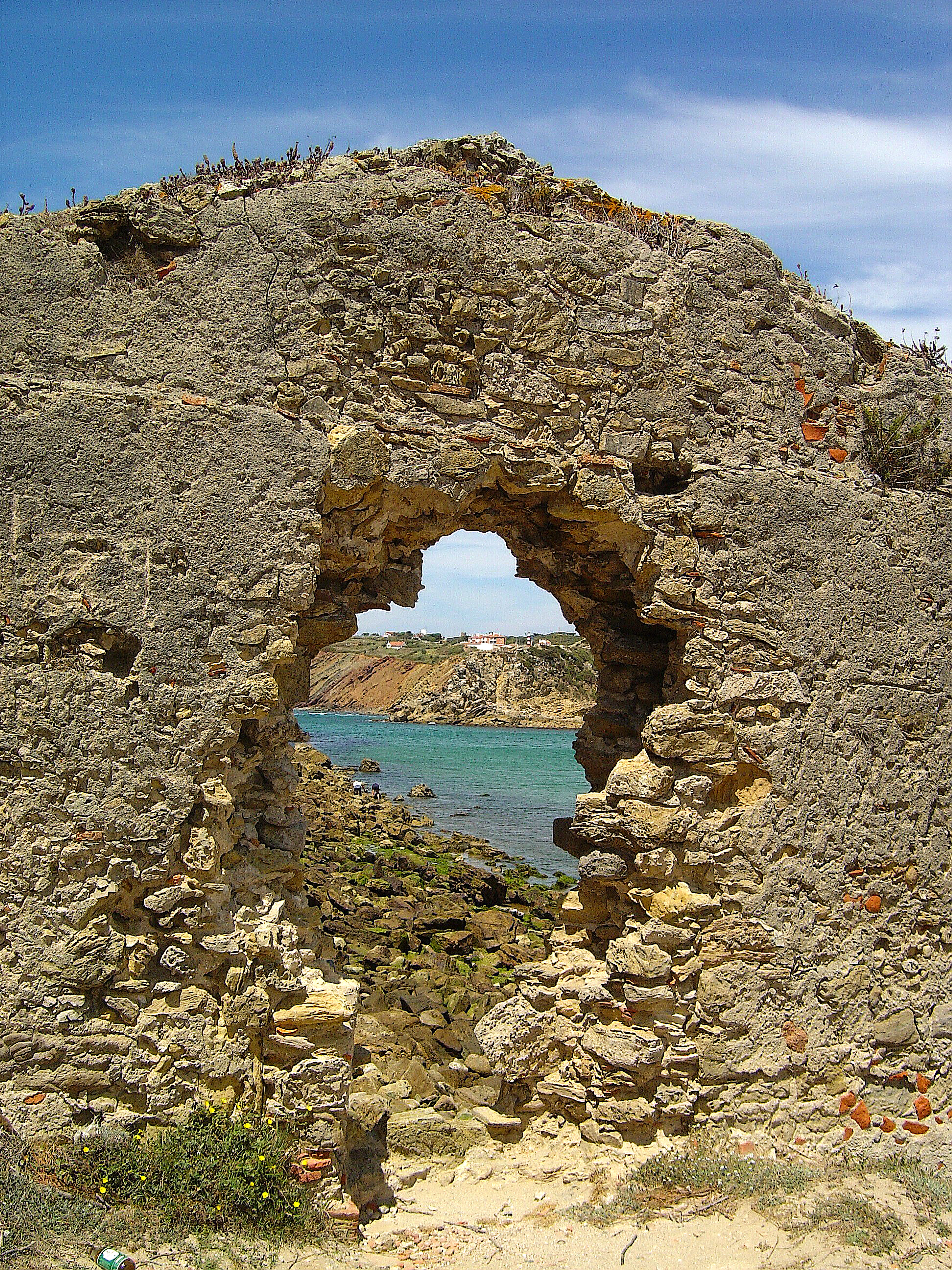 See where this picture was taken. [?]